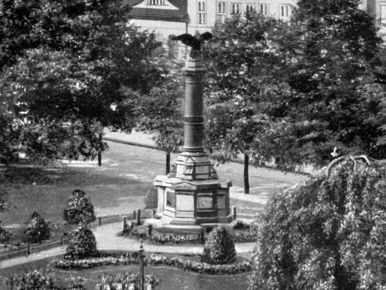 Former War Memorial in Frankfurt (Oder), Germany.